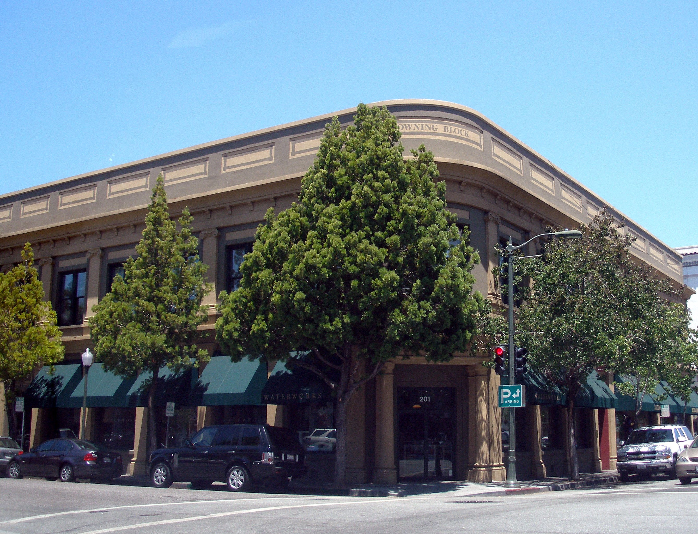 Photobucket headquarters in Palo Alto, California. Photographed by user Coolcaesar on June 17, en:2007.